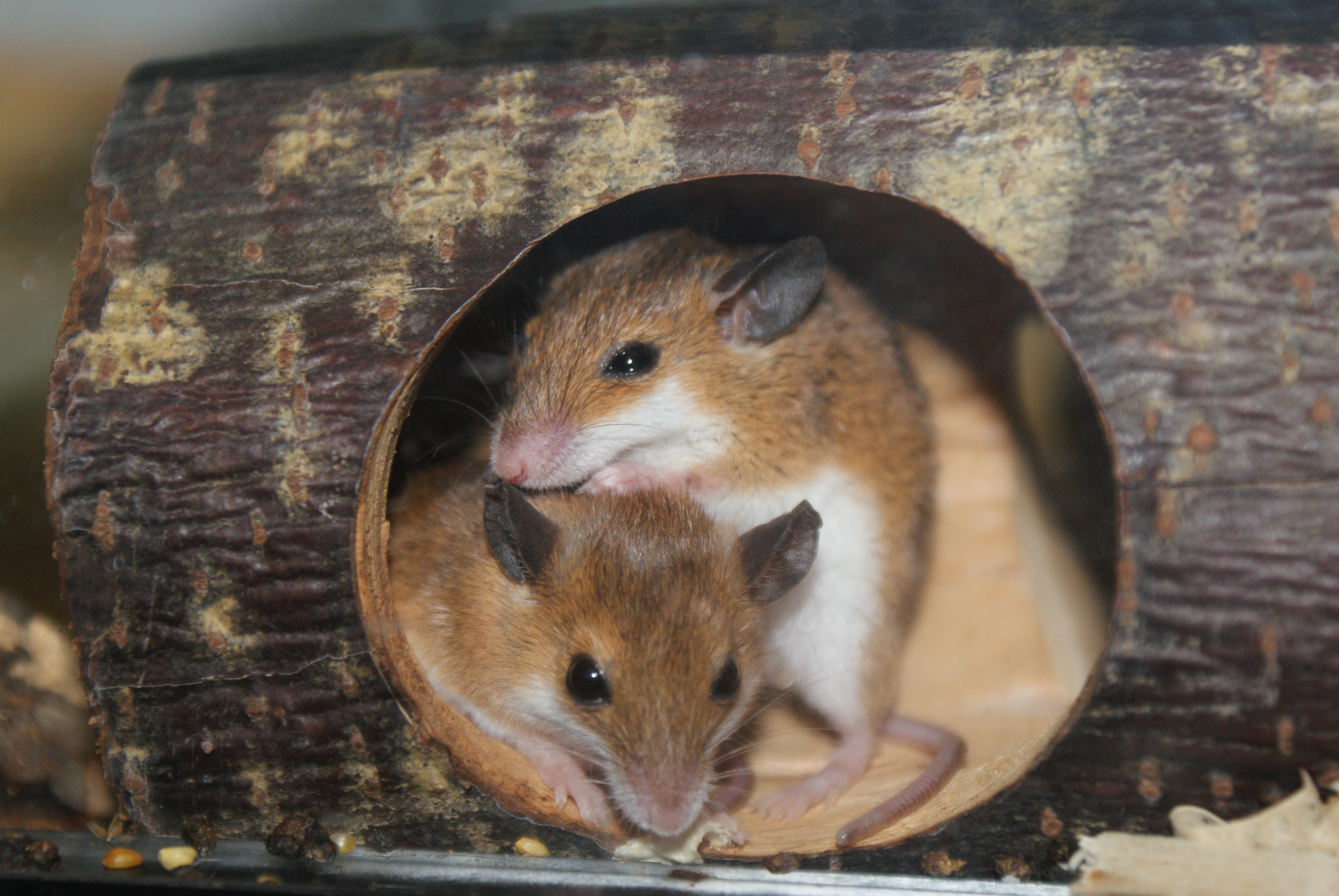 Two African Pygmy Mouse (Mus musculoides) resting